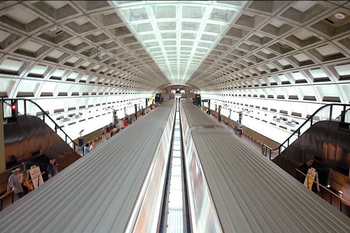 Washington DC Smithsonian Metro Station In email, the copyright holder confirmed to Zeimusu that he is the uploader, and this image is licensed under GFDL.